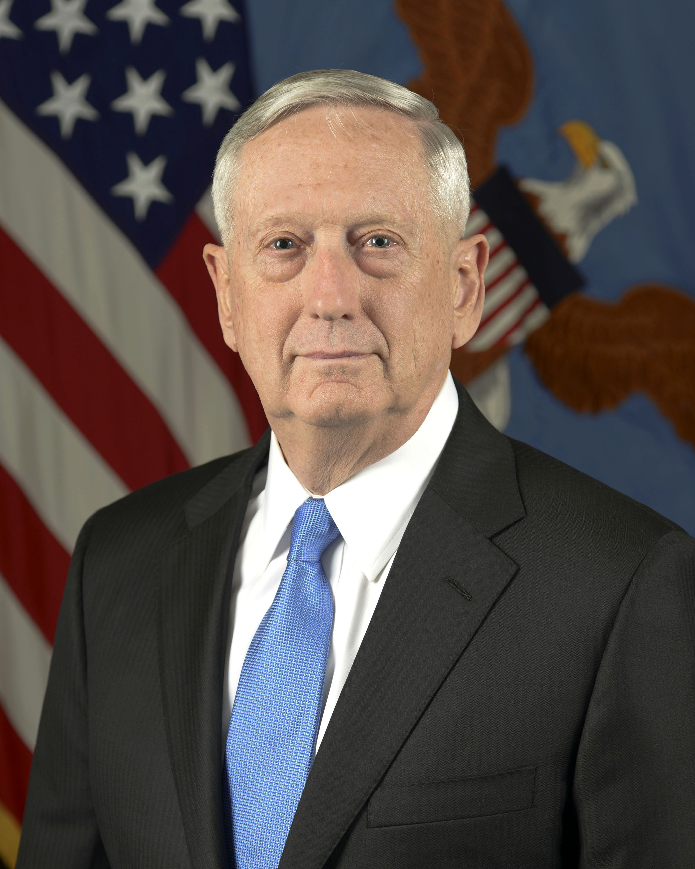 Official DOD Photo as Secretary of Defense. Biography